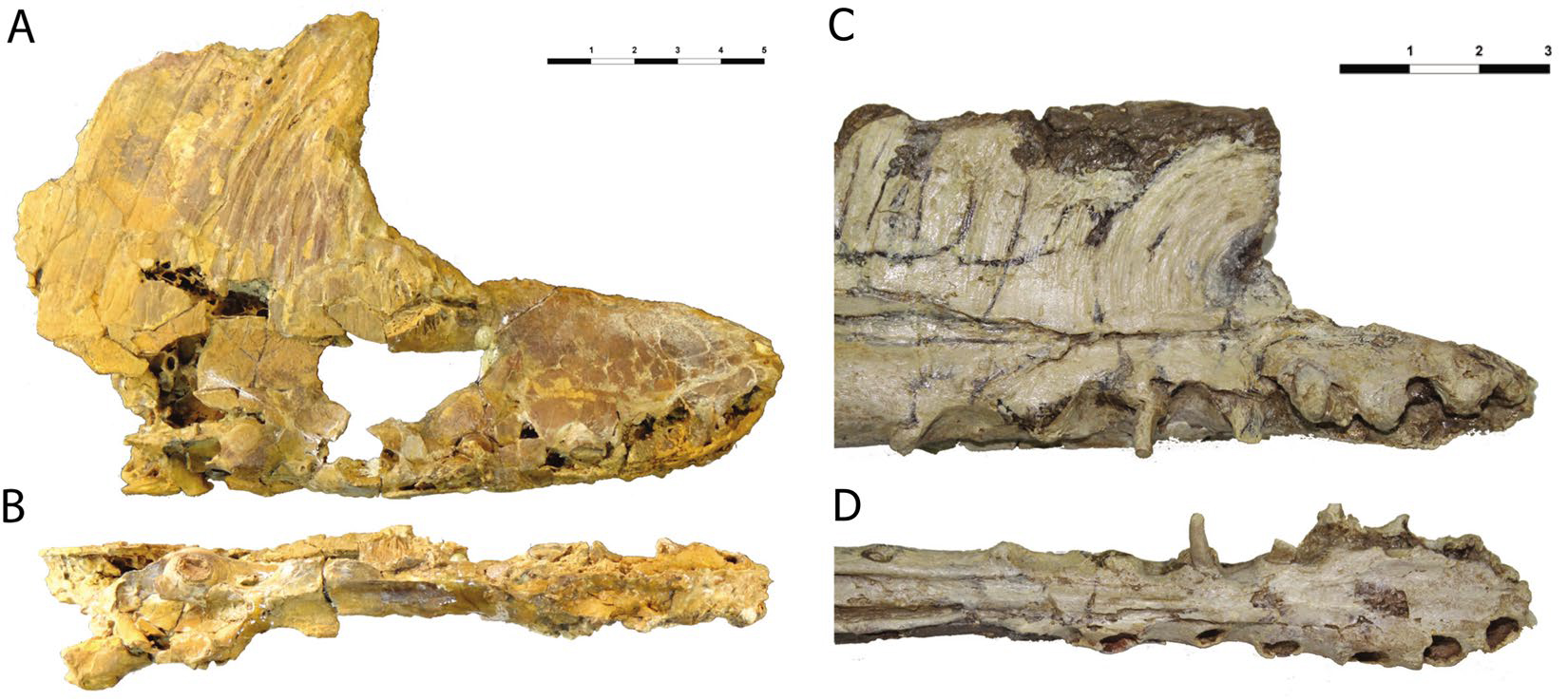 Comparison of the rostrum of Iberodactylus andreui gen. et sp. nov. (MPZ-2014/1) with a cast of a skull of Hamipterus tianshanensis (specimen stored at the Museu Nacional/Universidade Federal do Rio de Janeiro, Rio de Janeiro, Brazil (MN), MN-7536-V). Pictures in right lateral (A,C) and palatal (B,D) views.